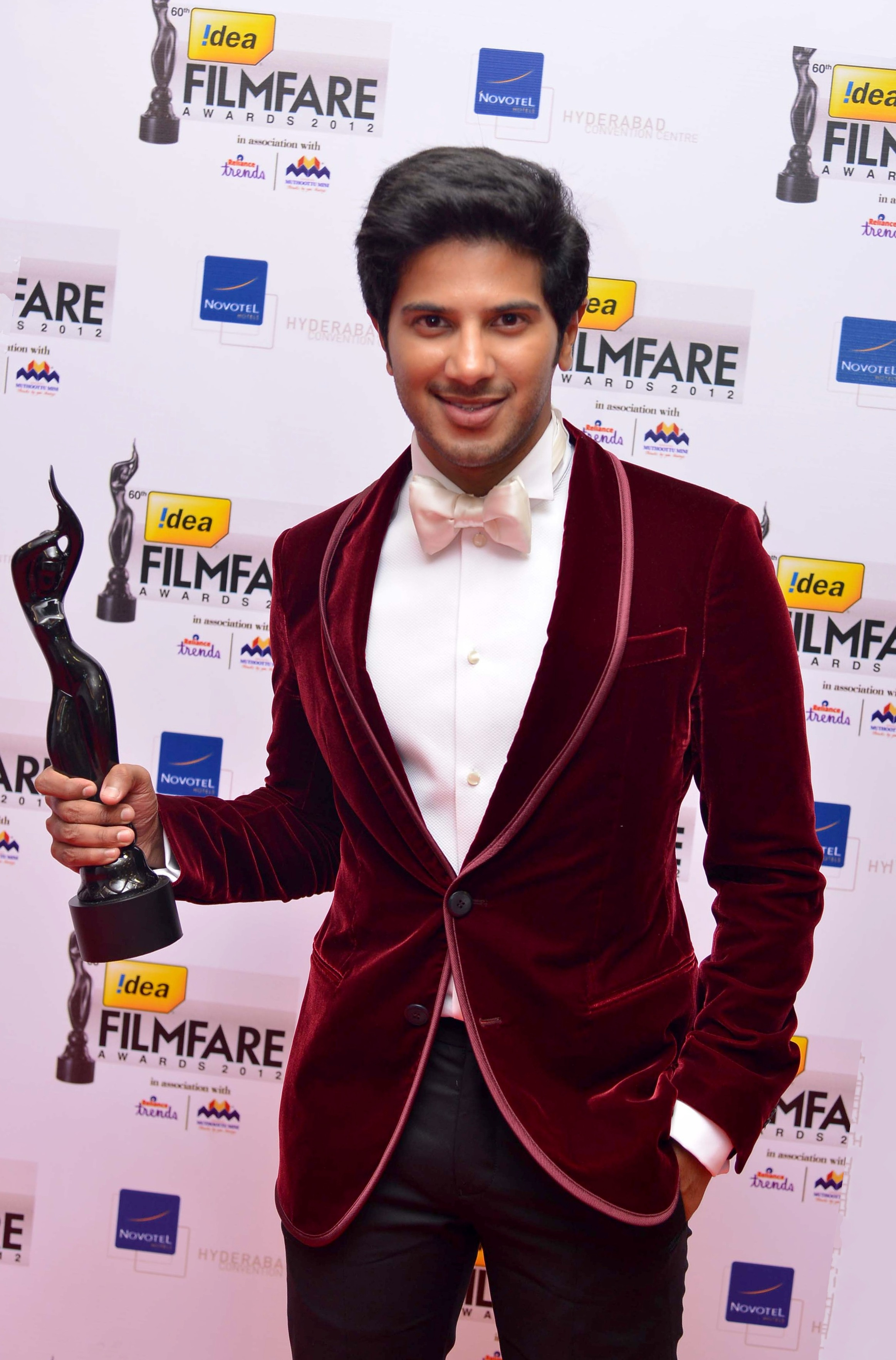 Dulquar Salman at 60th South Filmfare Awards 2013